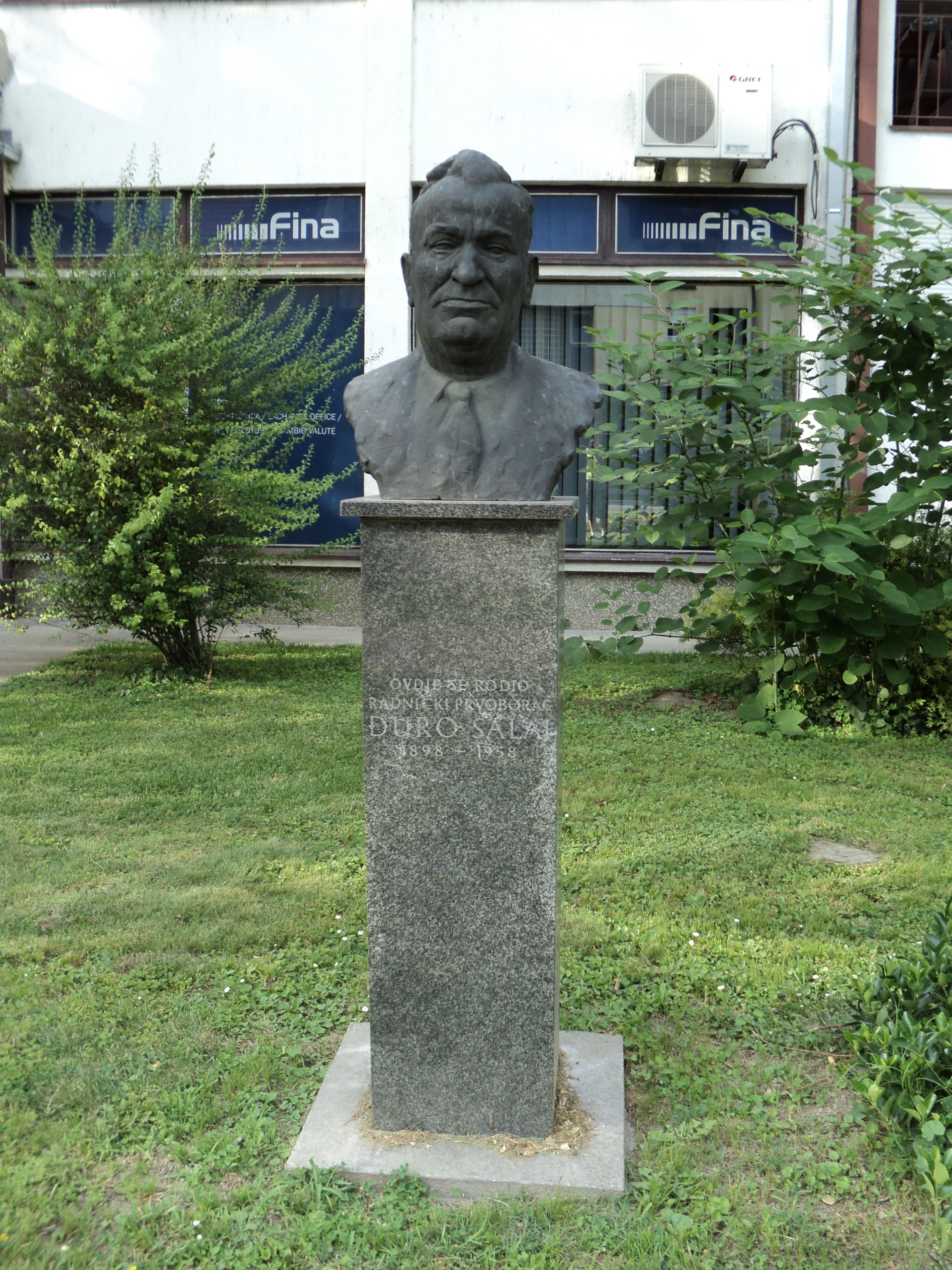 Bust of revolutionary Đuro Salaj (1898-1958) in Valpovo.